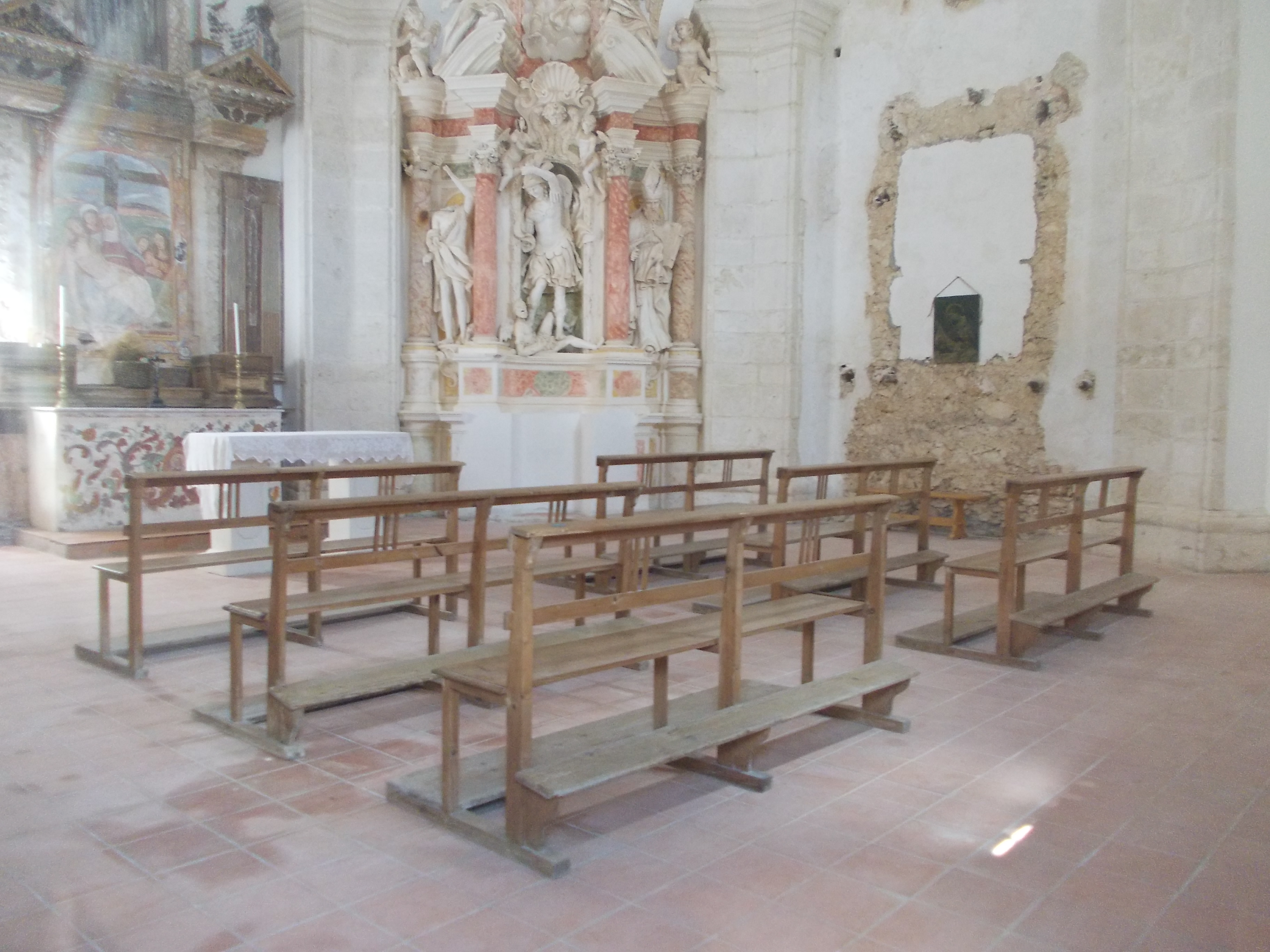 The inside of the church of Santa Maria della Pietà nearby Rocca Calascio, in the Province of L'Aquila, Abruzzo, Italy